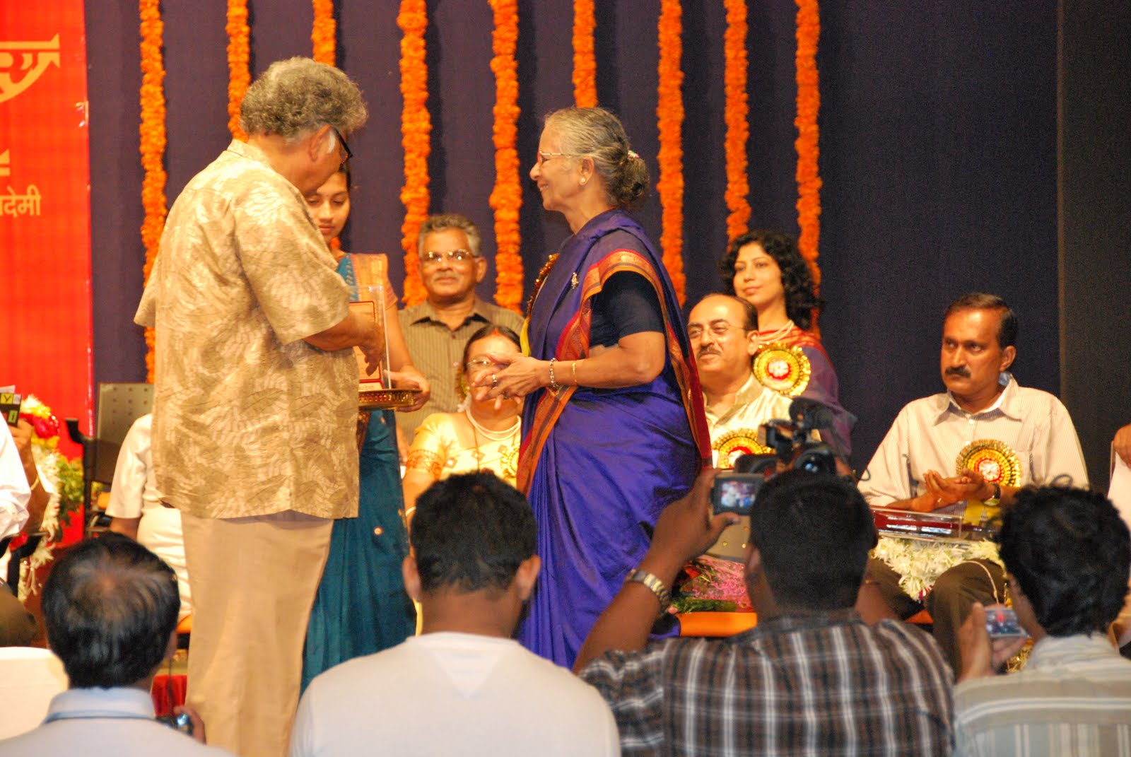 Receiving the Sahitya Academy Translation award